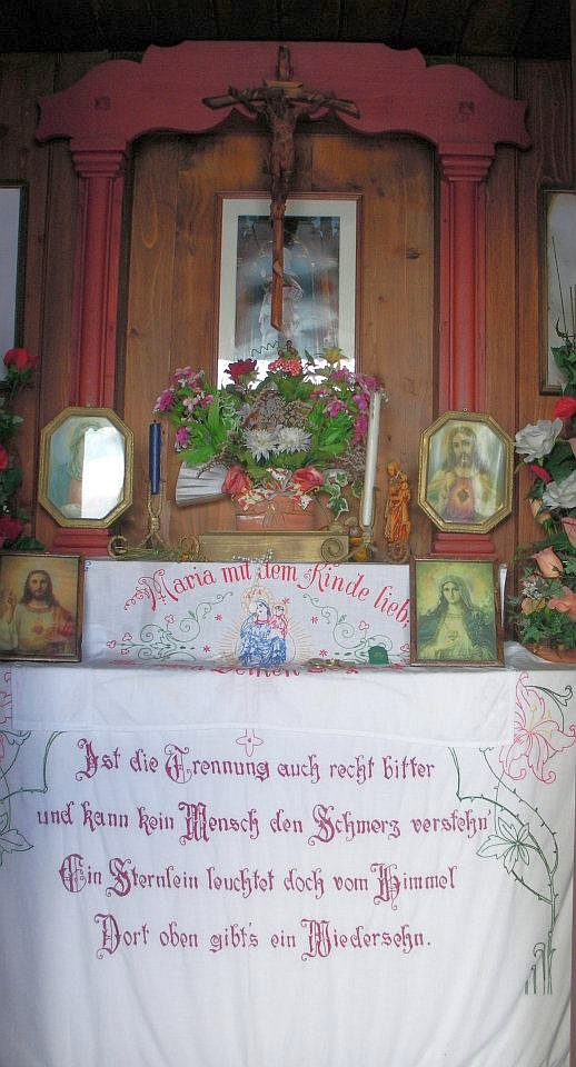 Tanzstatt Chapel altar cloth1.